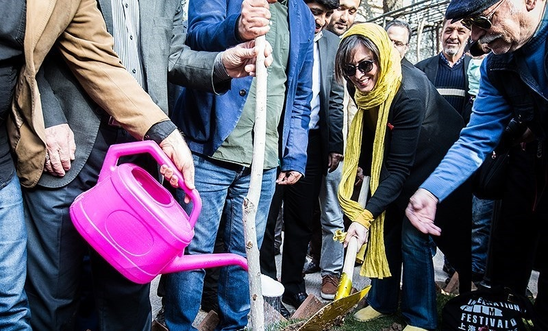 Arbor Day in Iran